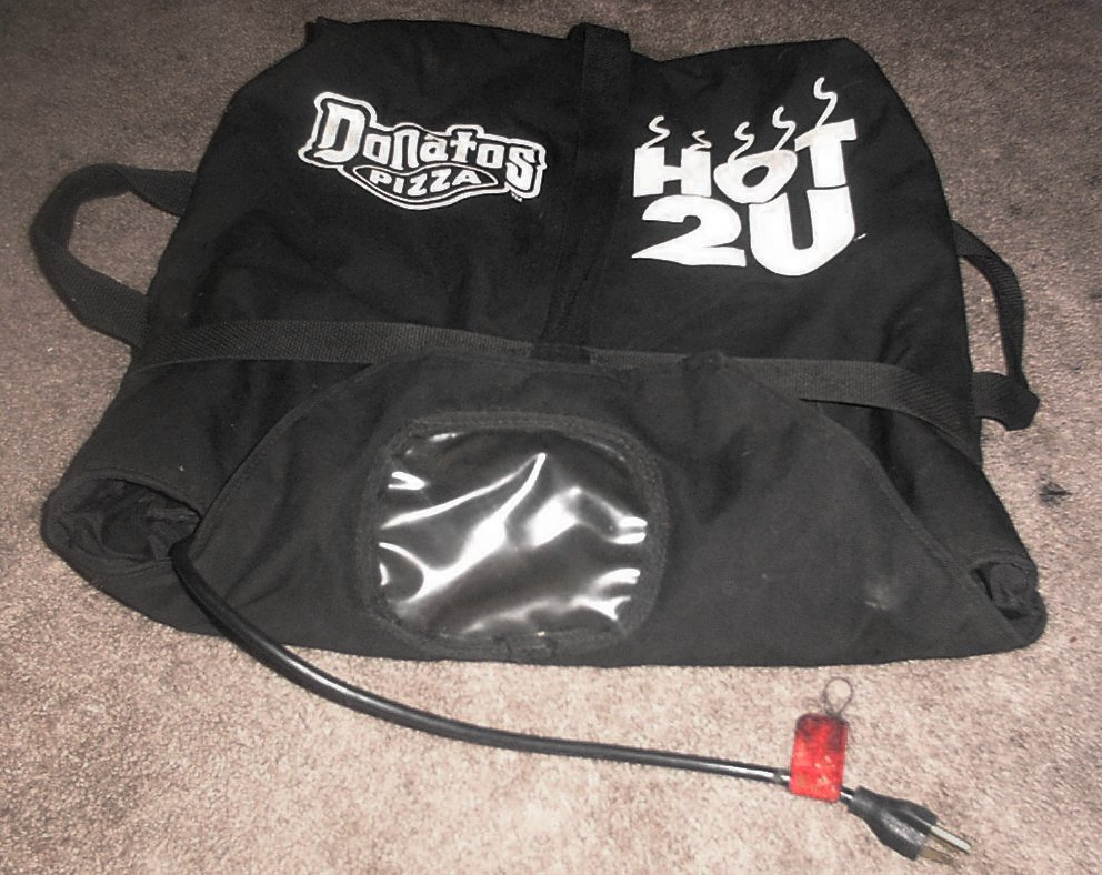 A typical heated pizza bag, with a plug at the bottom.